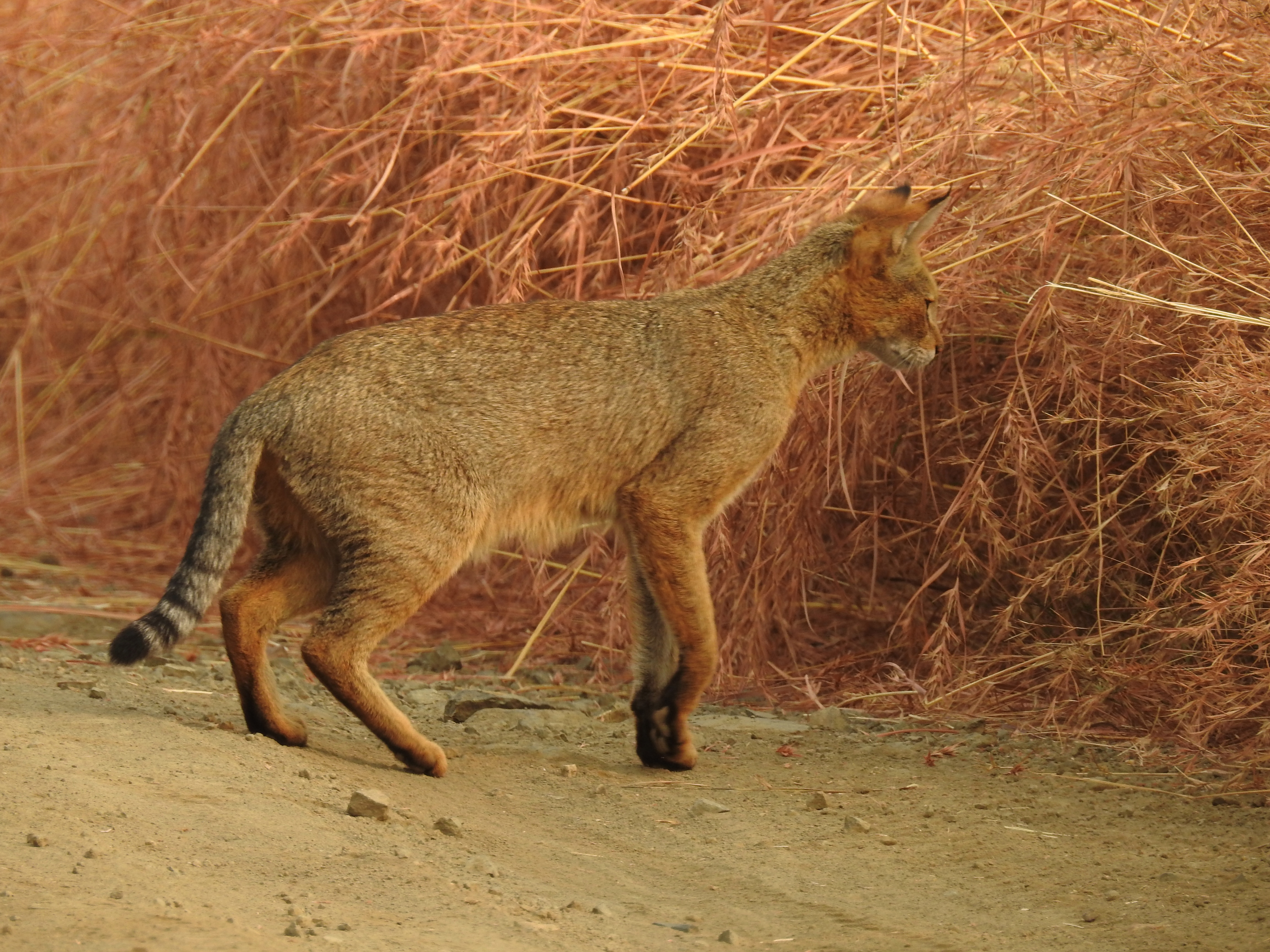 Jungle Cat Felis chaus. Photographed by Dr. Raju Kasambe at Ambazari lake, Nagpur, Maharashtra, India.